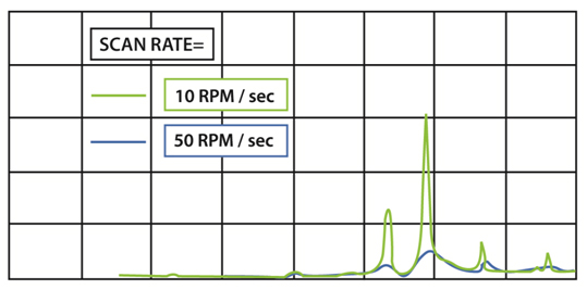 Scan Rate Chart